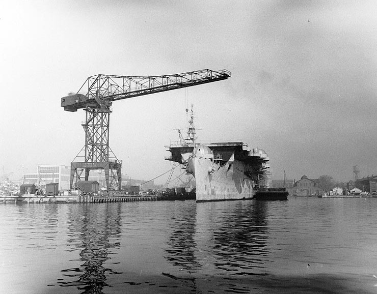 USS Langley (CVL-27) undergoes reactivation at the Philadelphia Naval Shipyard, Pennsylvania, in January 1951. She was later transferred to the French Navy.